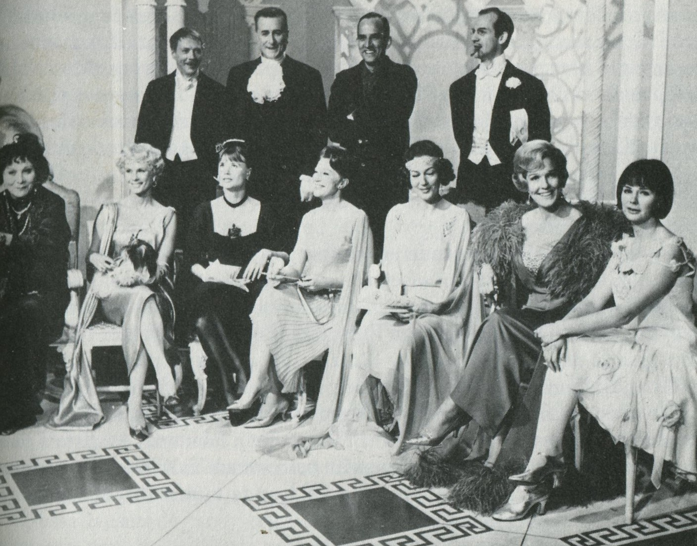 Group photograph of the cast of Ingmar Bergman's film All These Women (För att inte tala om alla dessa kvinnor): from left to right, standing Allan Edwall, Georg Funkquist, Ingmar Bergman, Jarl Kulle; sitting: Karin Kavli, Bibi Andersson, Harriet Andersson, Gertrud Fridh, Barbro Hiort af Ornäs, Eva Dahlbeck and Mona Malm.